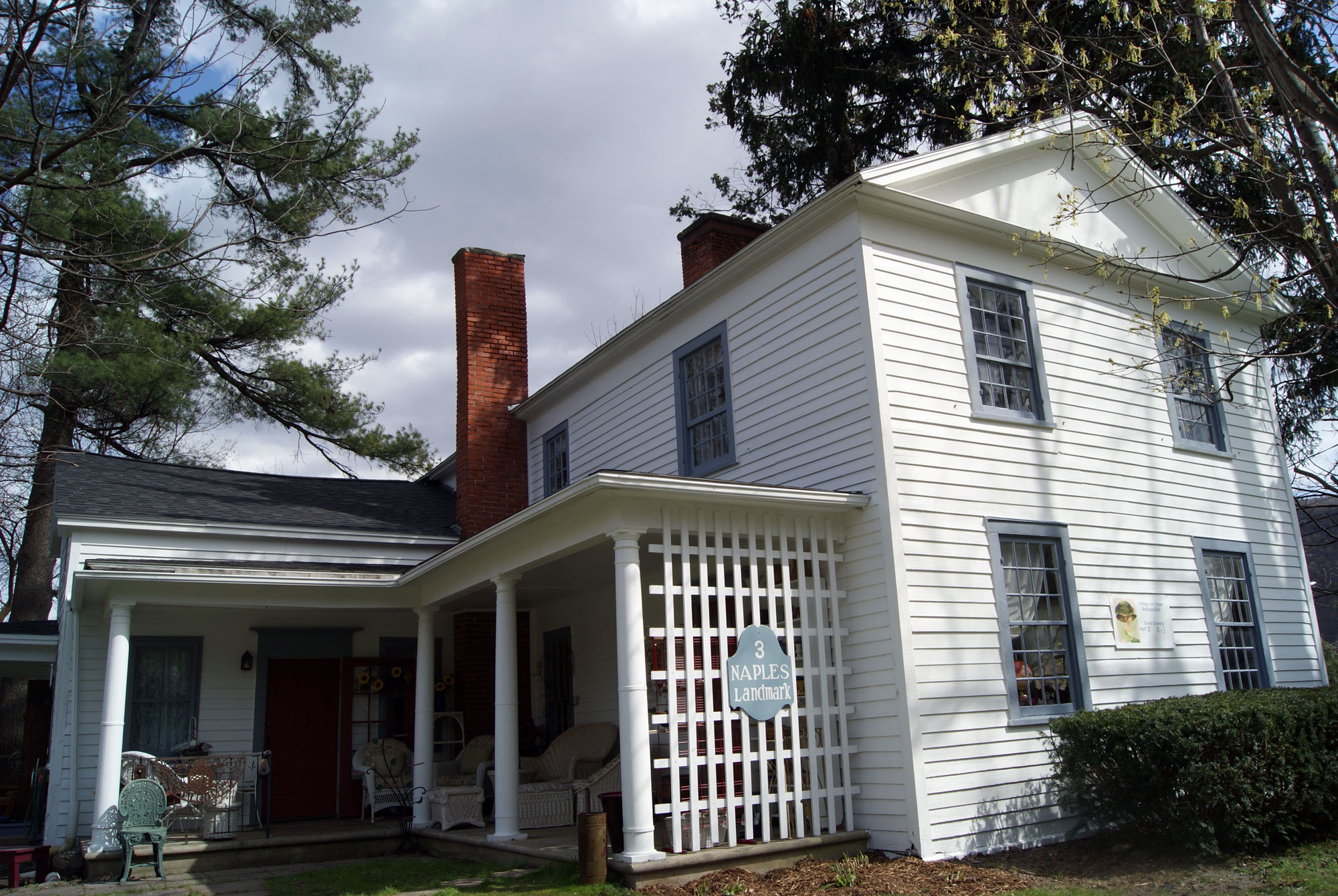 Ephraim Cleveland House noted for Federal style on 201 N. Main St., Naples, New York/